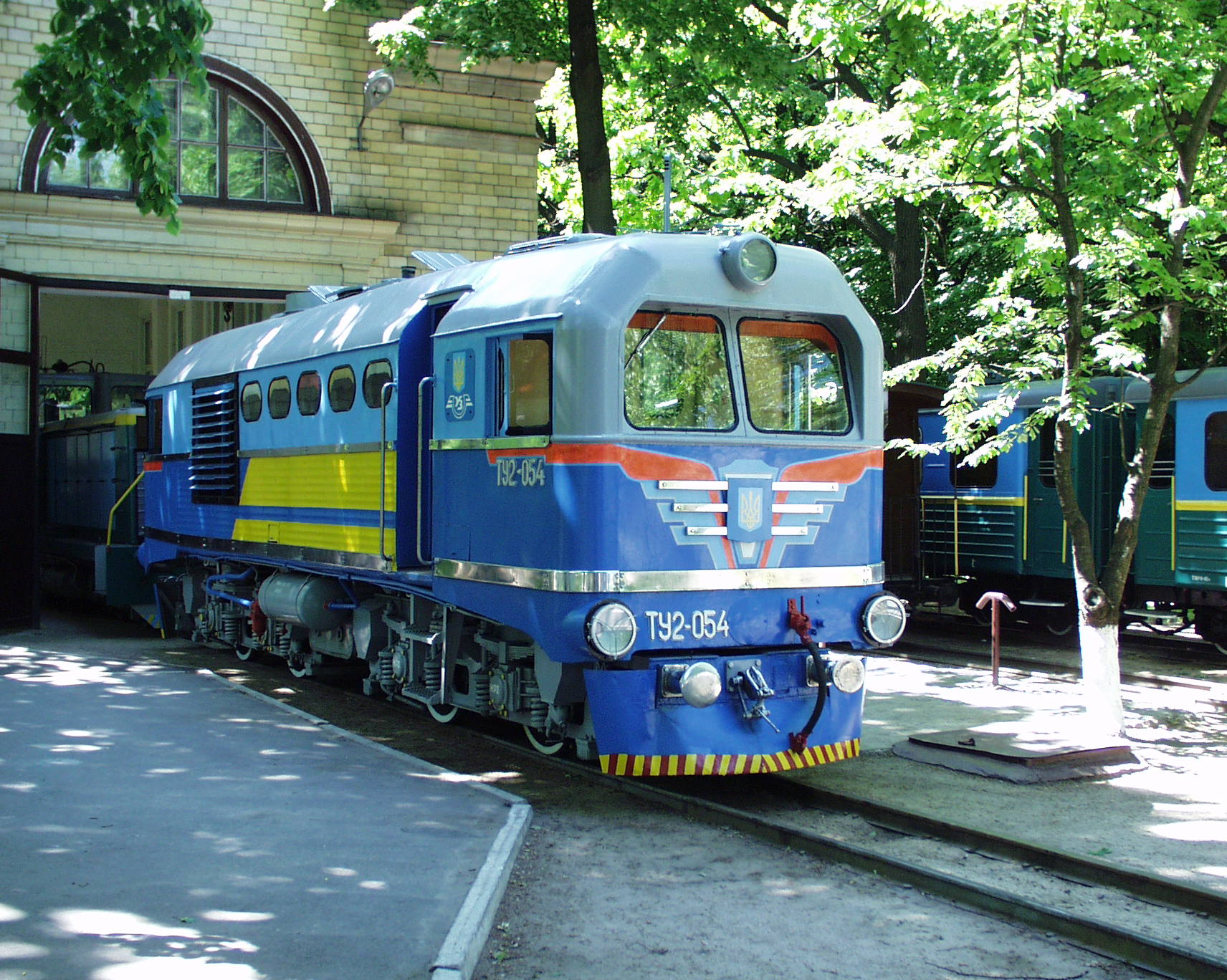 Kharkov children's railways. Diesel-locomotive TU2-054 near depot.